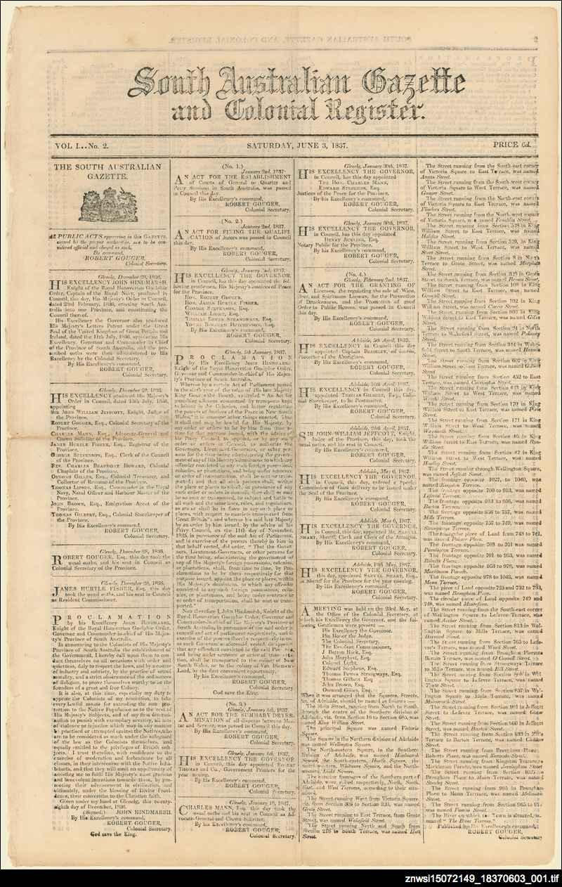 Vol 1, No 2 (3 June 1837) of the South Australian Register. Source from the State Library of South Australia website